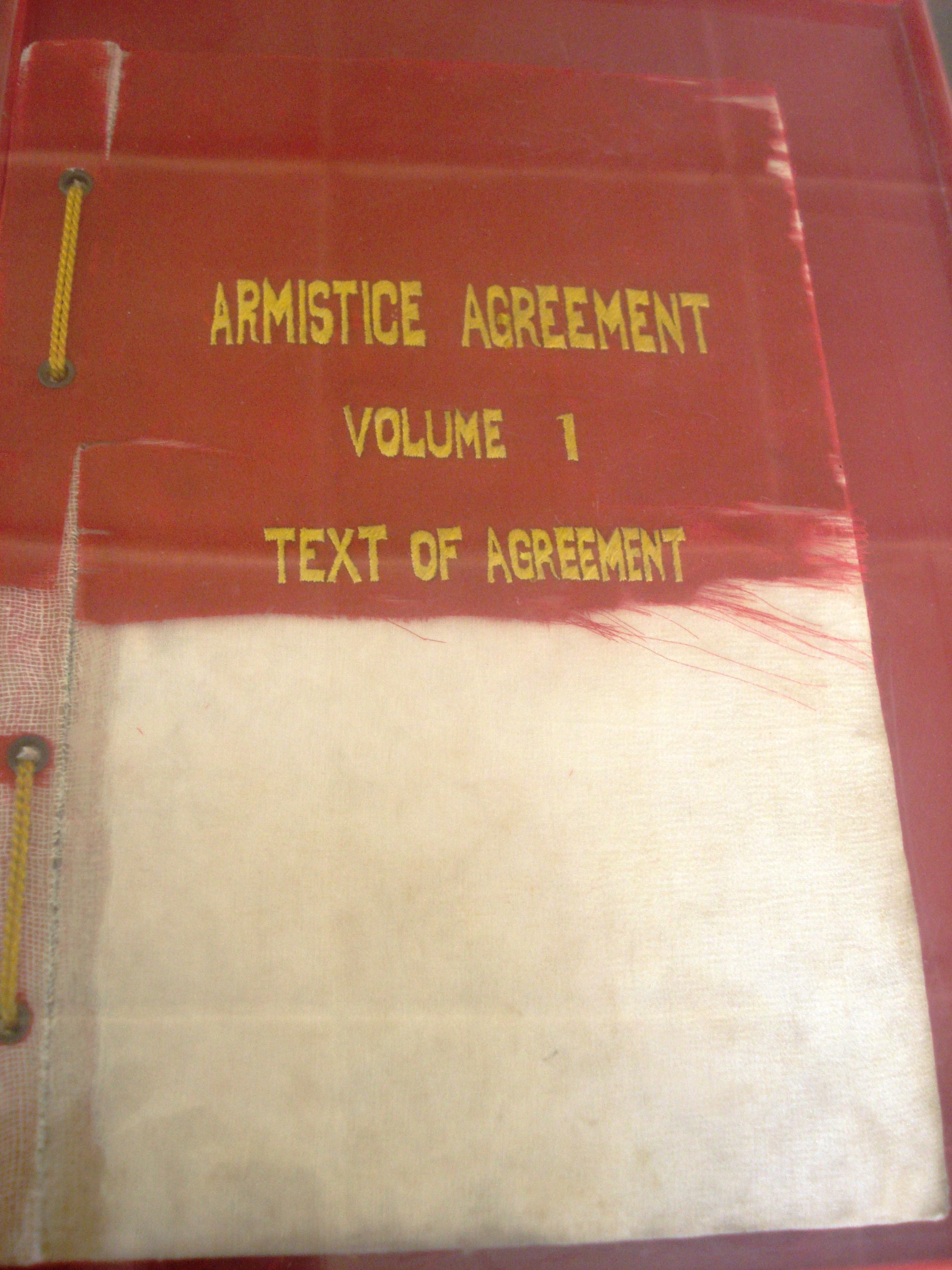 Text of the Armistice, in DPR Korea